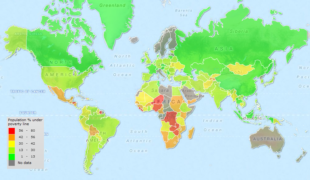 Source: CIA World Factbook - Unless otherwise noted, information in this page is accurate as of January 1, 2012